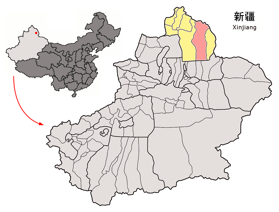 Location of Fuyun County (pink) and Altay Prefecture (yellow) within Xinjiang autonomous region of China Map drawn in september 2007 using various sources, mainly : Xinjiang Uygur autonomous region administrative regions GIS data: 1:1M, County level, 1990 Xinjiang Counties map from